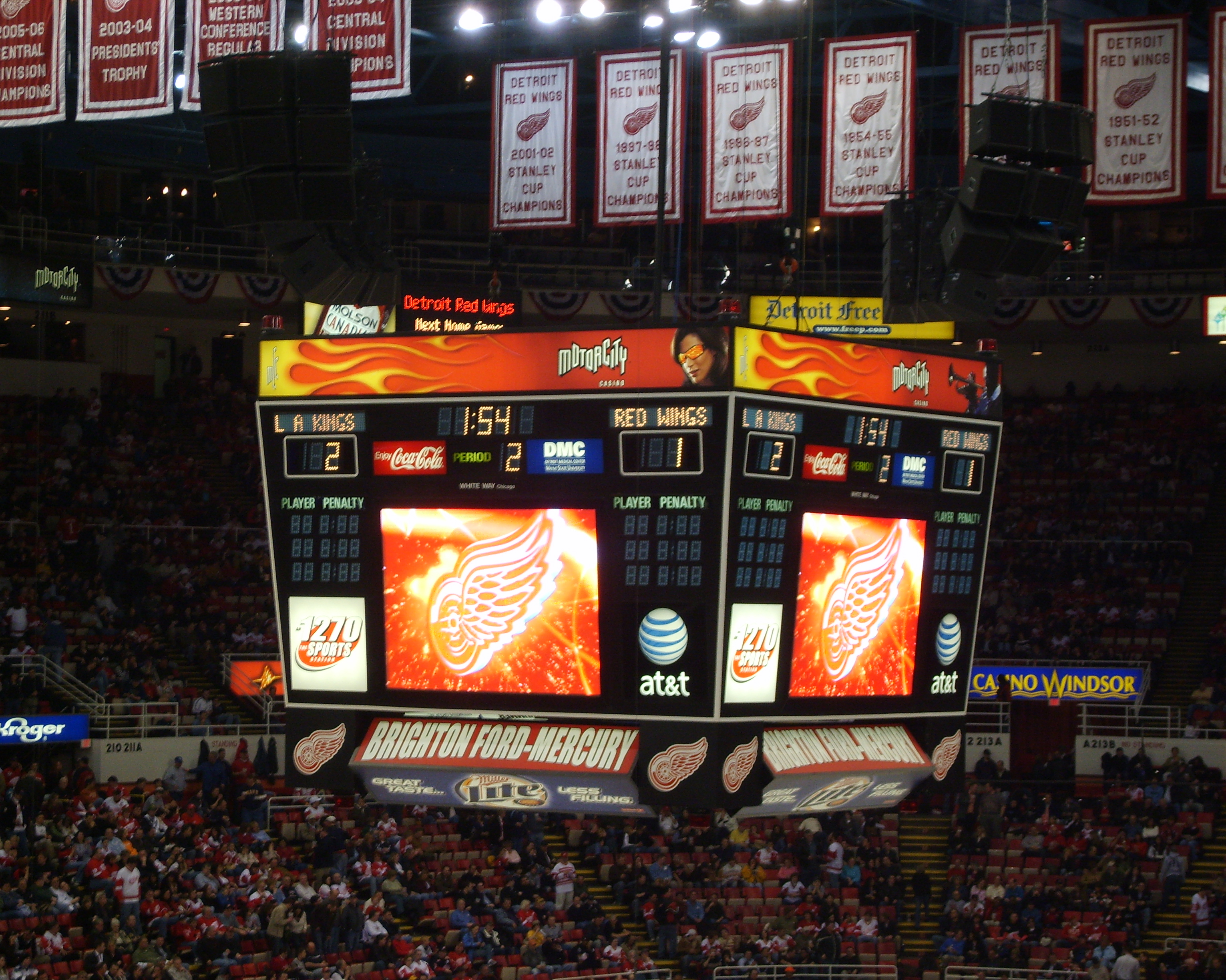 This photo was taken by me, User:Schmackity during a game between the Detroit Red Wings and the Los Angeles Kings on March 9, 2007 at Joe Louis Arena. (The Wings ended up winning in overtime!)